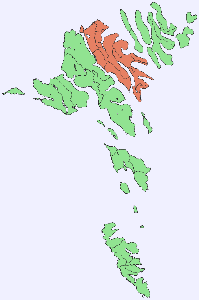 Position of Eysturoy, Faroe Islands